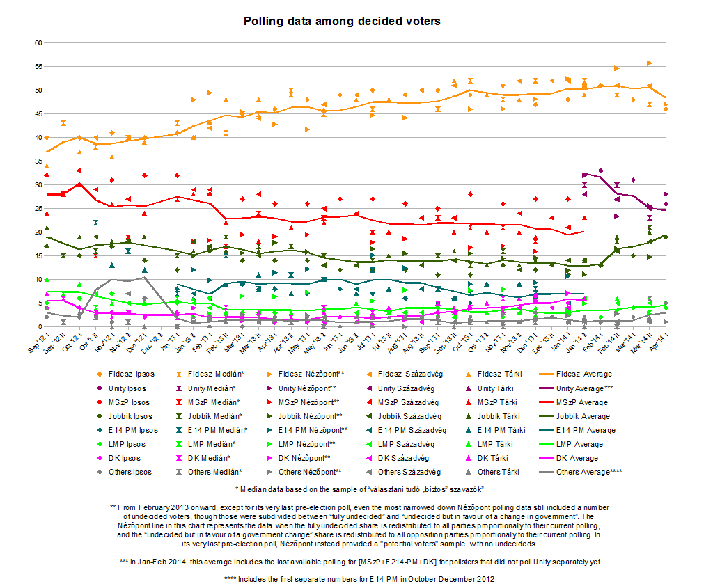 This chart illustrates the level of support for the main Hungarian political parties among decided voters, as measured by the five polling institutions that regularly conduct polling in Hungary, in 2012-2014. Please note the information in the footnotes about the selection and calculation of the Medián and Nézőpont data.